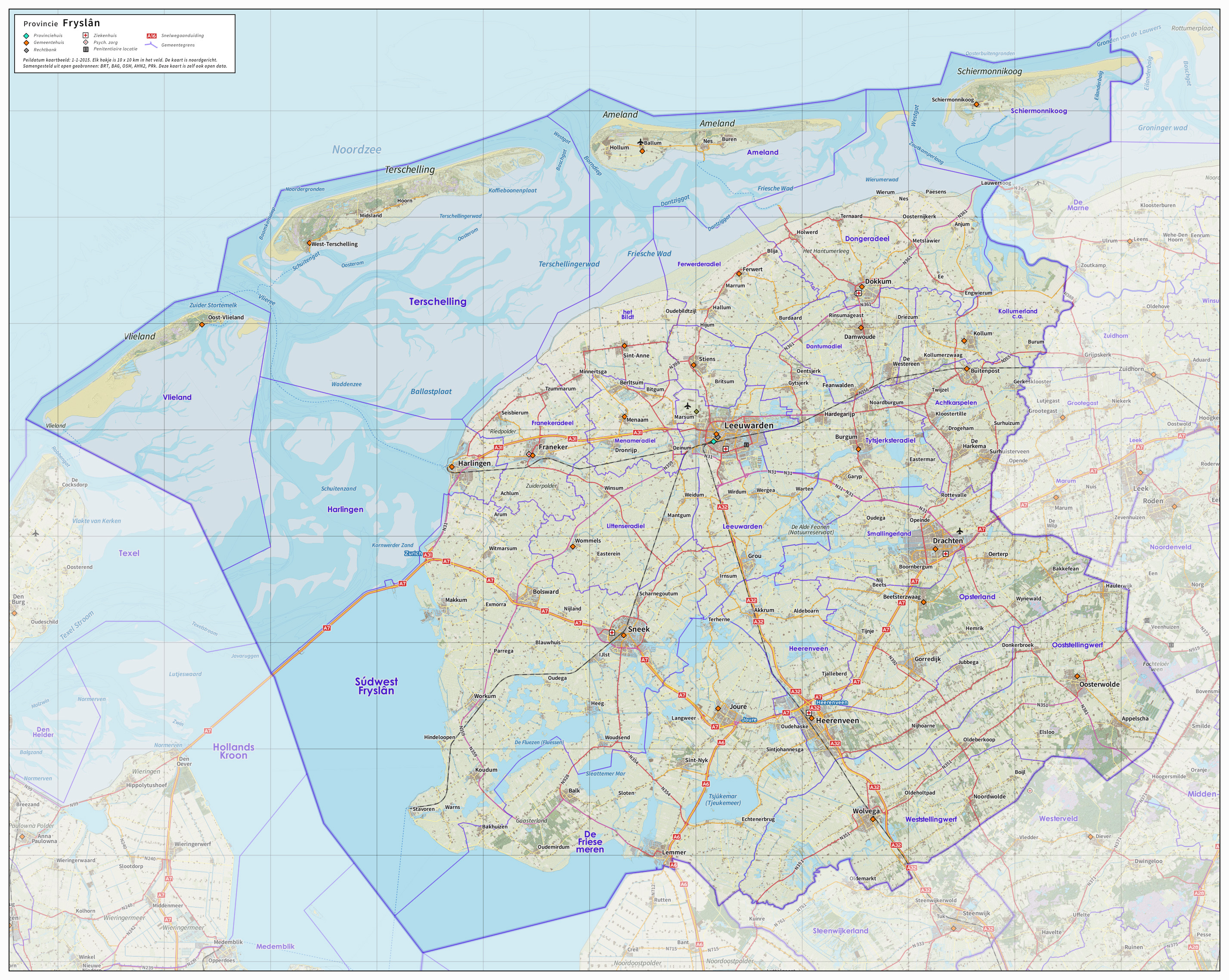 Overview map incuding terrain, transportation infrastructure, places and administrative boundaries. Map compiled using the Dutch Base Registry Topography (BRT, Kadaster) and the OpenStreetMap (OSM, open community). Each grid square measures 10x10 km. Compiled and visualised by: Jan-Willem van Aalst, using QGIS. See also the Map legend.